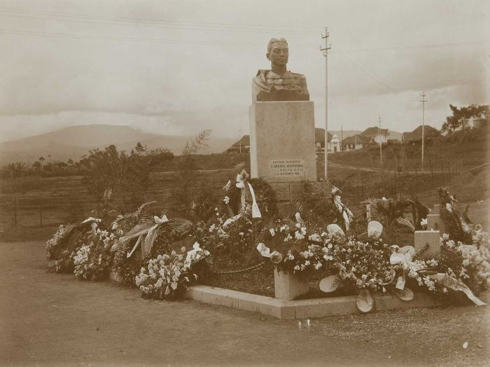 Statue of KNIL captain aviator J. Engelbert van Bevervoorde who perished in 1918